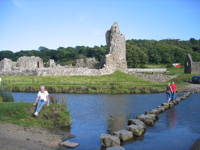 Stepping Stones on River Ogmore, Ogmore Castle, Ogmore, near Bridgend, Wales.